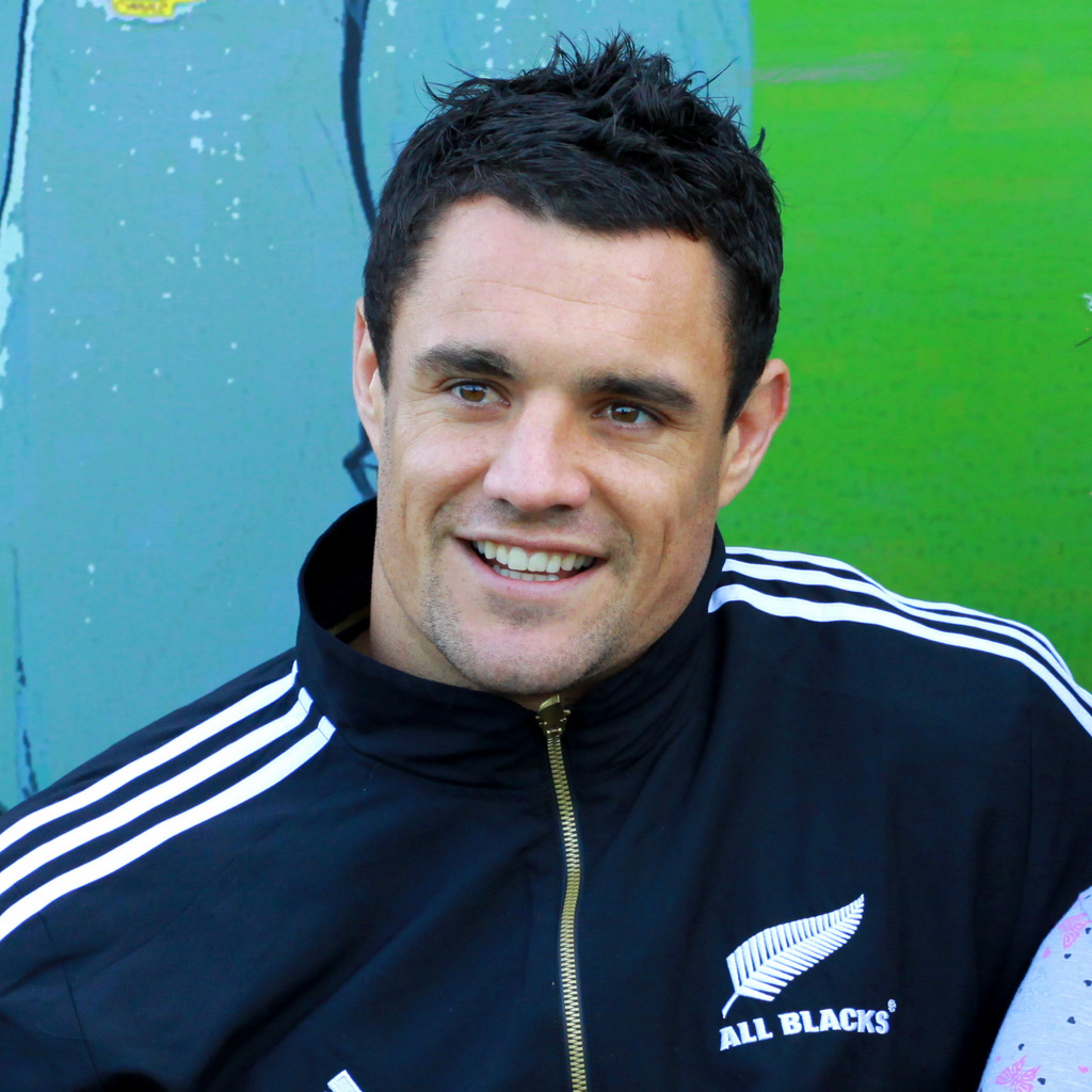 New Zealand rugby union player Dan Carter and the rest of the All Blacks visit Christchurch during the Rugby World Cup.